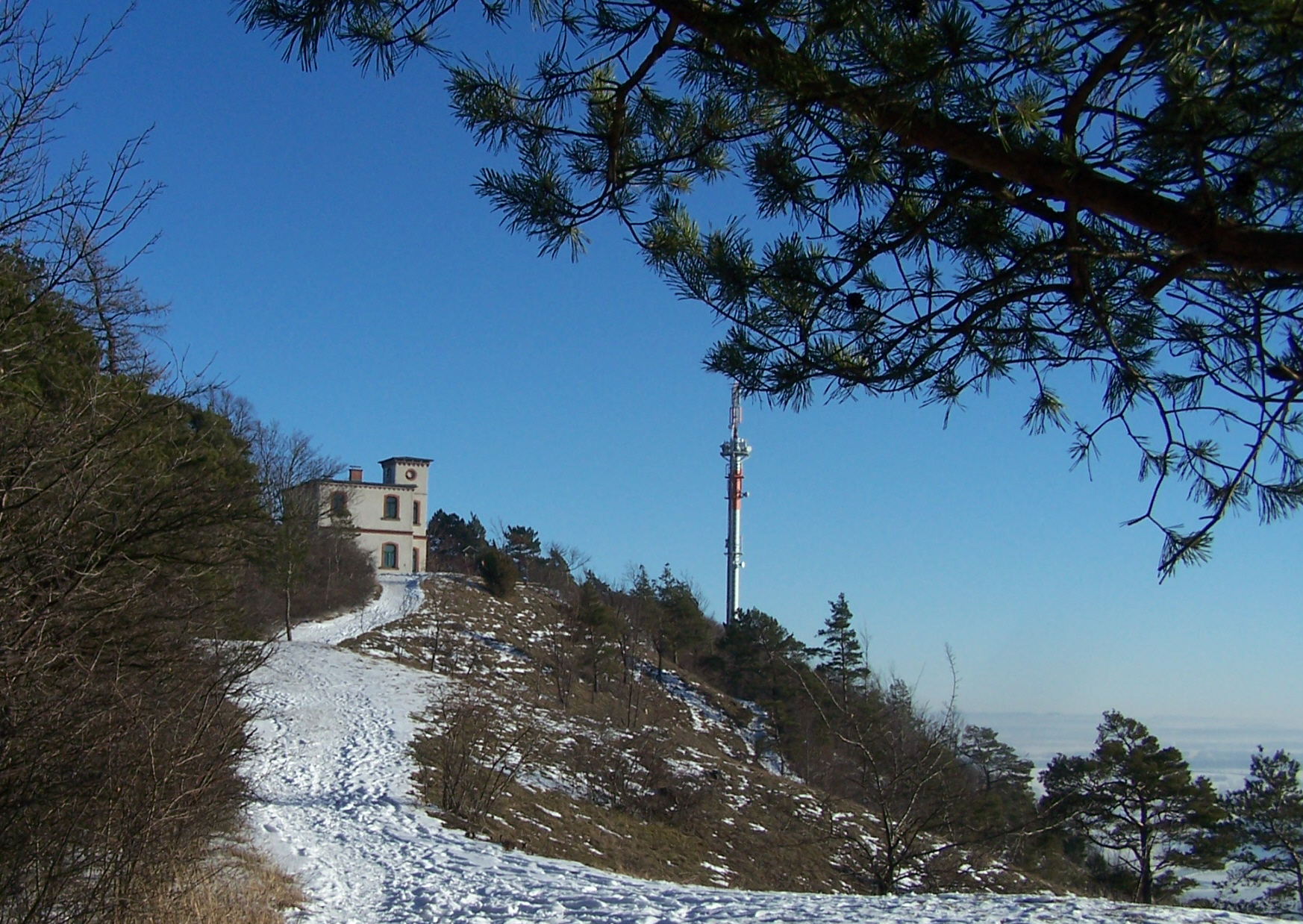 The Hoerselberghaus.